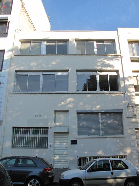 Building of the 49-51 rue Ganneron, Paris 17th arrond. Former head office of the company Dailymotion. This is a recent building, but not a original one. So, it does not enter in the no COM:CRT/France#Freedom of panorama problem.